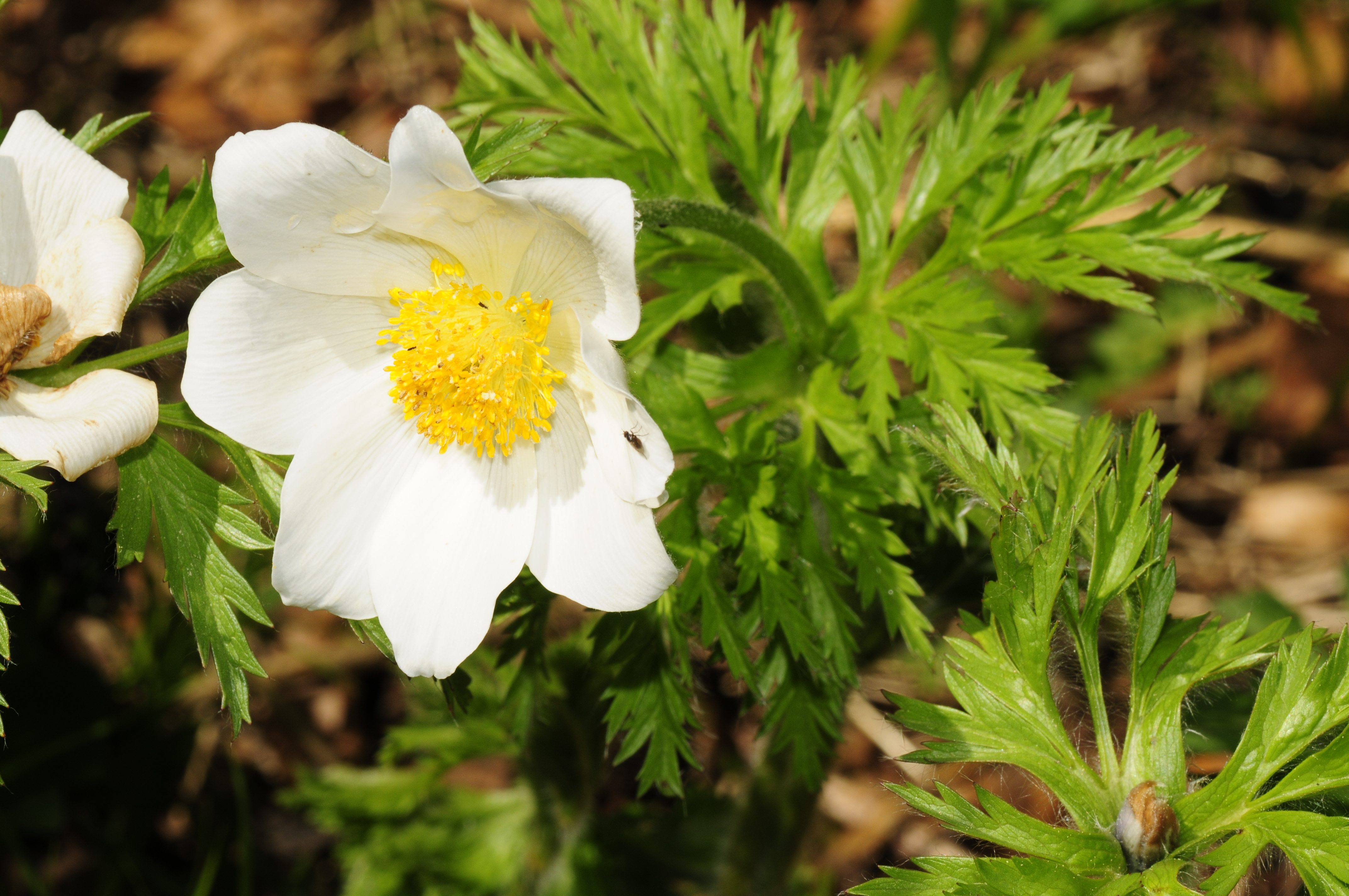 Please report references to .